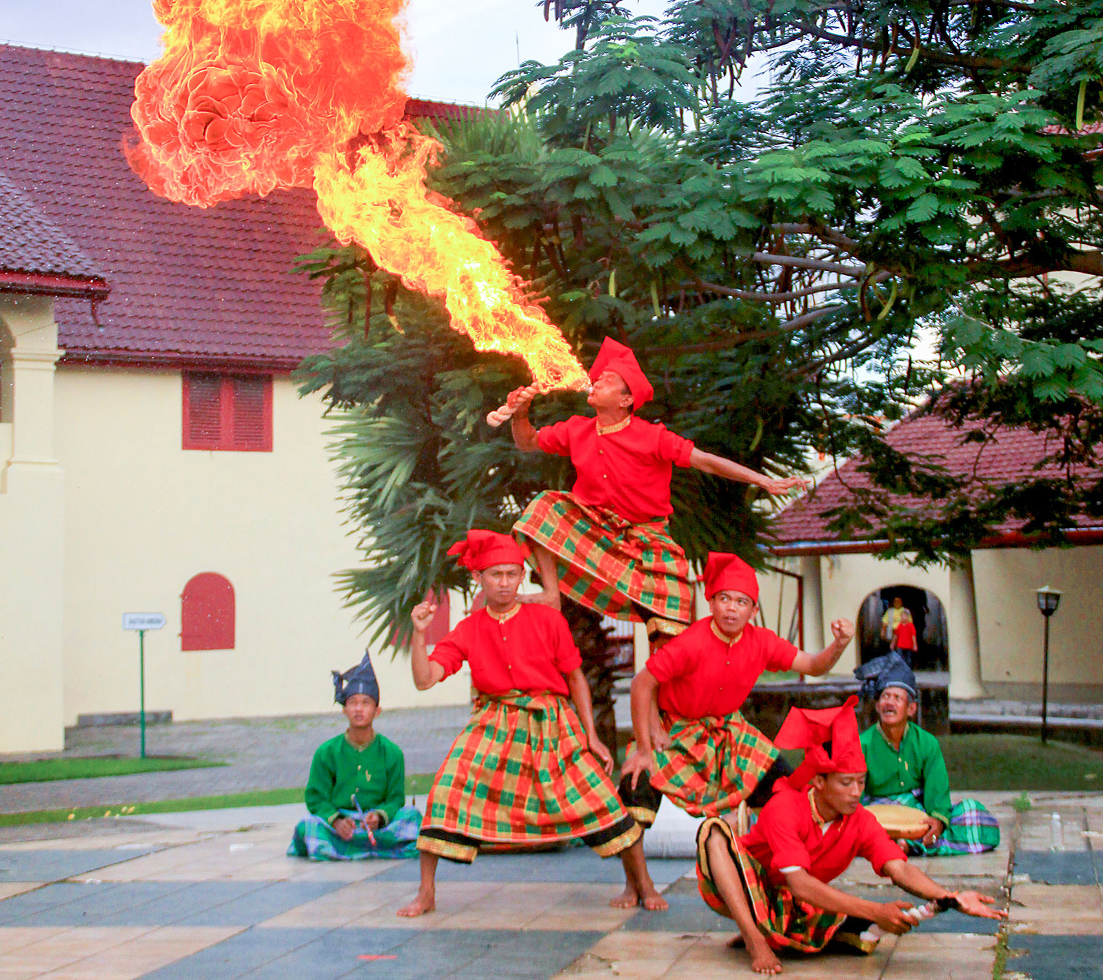 pepe ri makka. makassar traditional dance